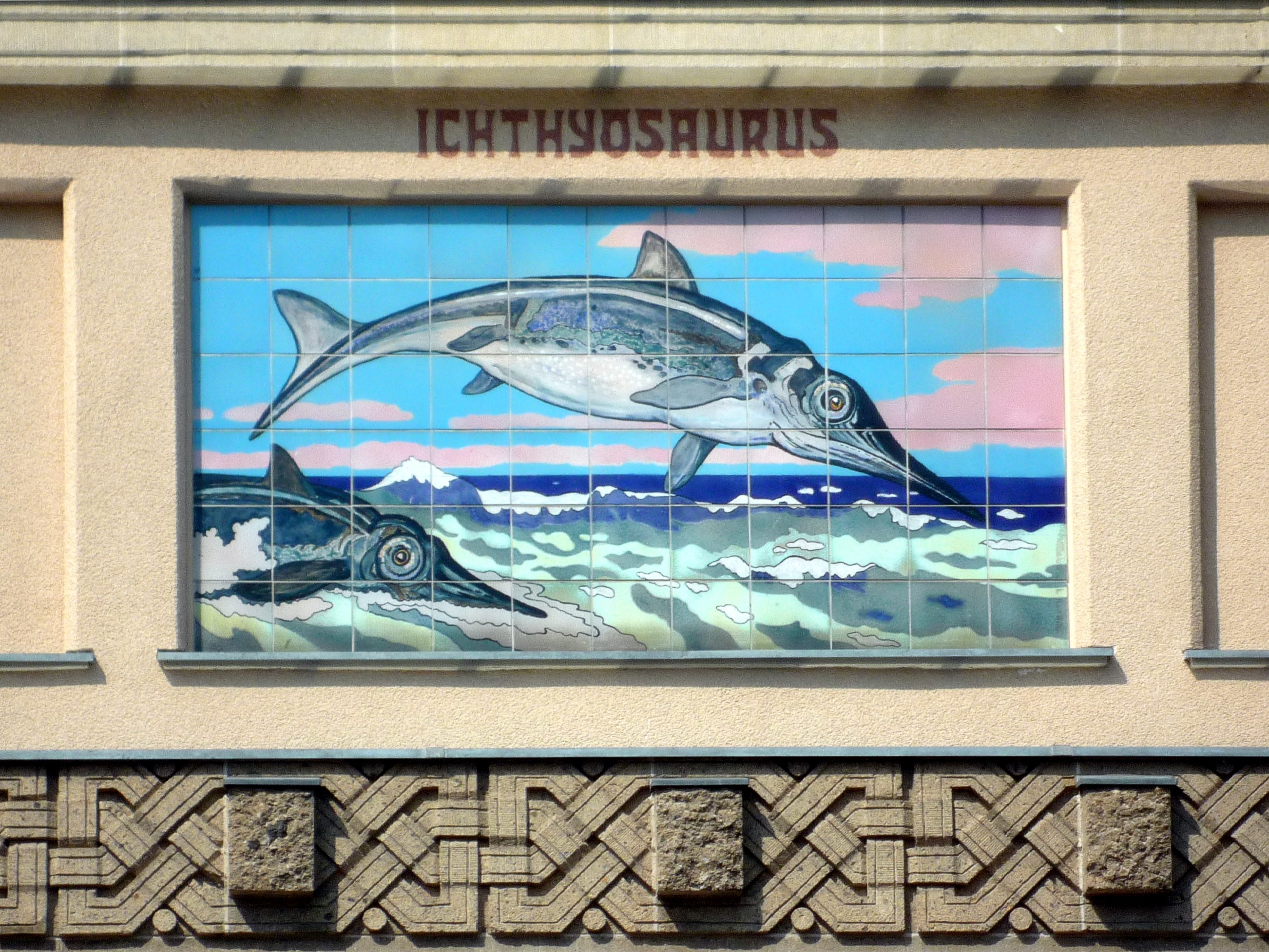 Zoo Aquarium Berlin, detail of the facade with picture of a Ichtyosaurus.